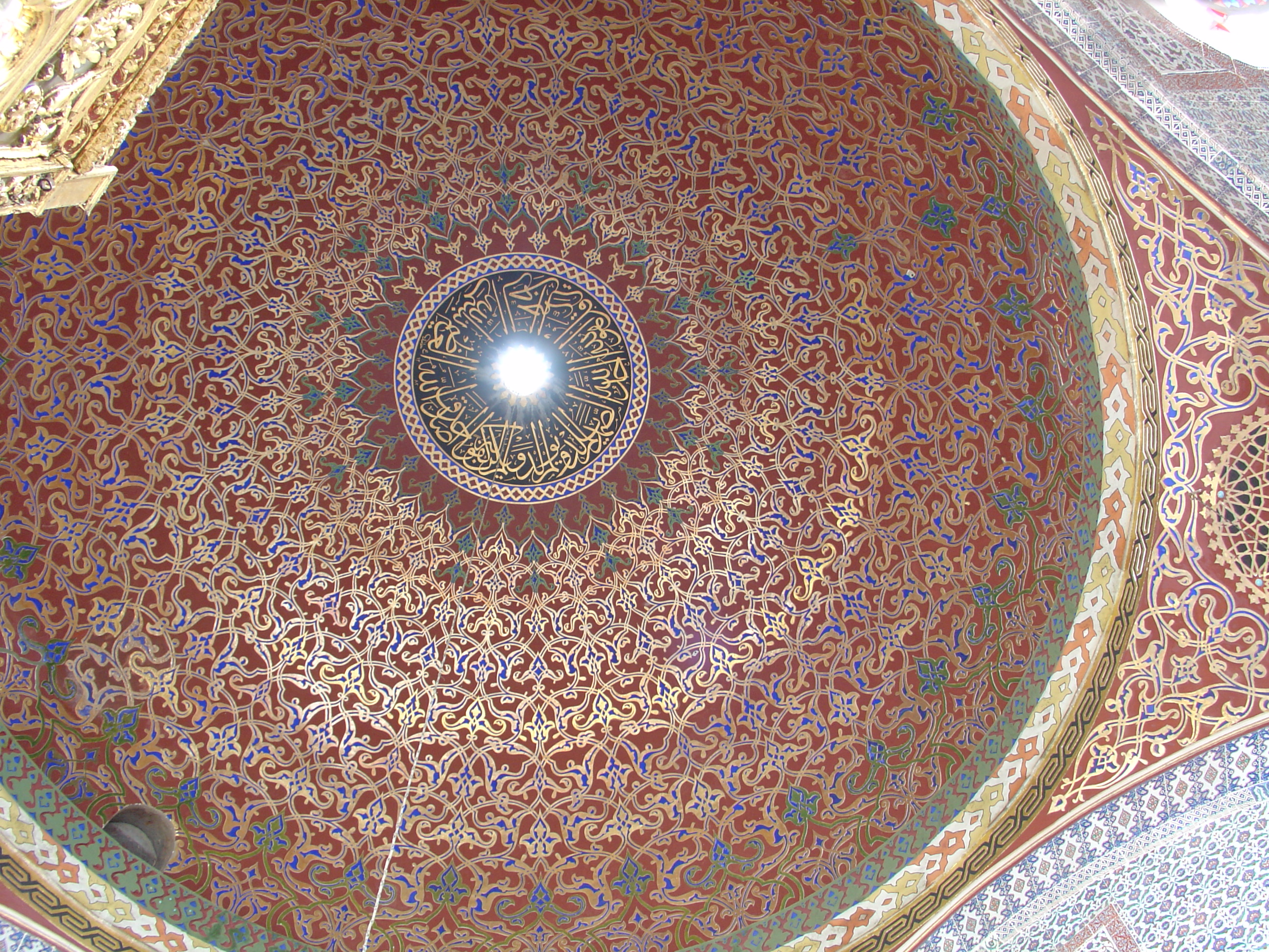 Dome of the Privy Chamber of Murad III in the Harem of the Topkapi Palace in Istanbul, Turkey